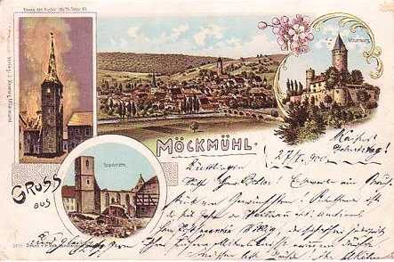 Möckmühl ca. 1900 (old postcard)